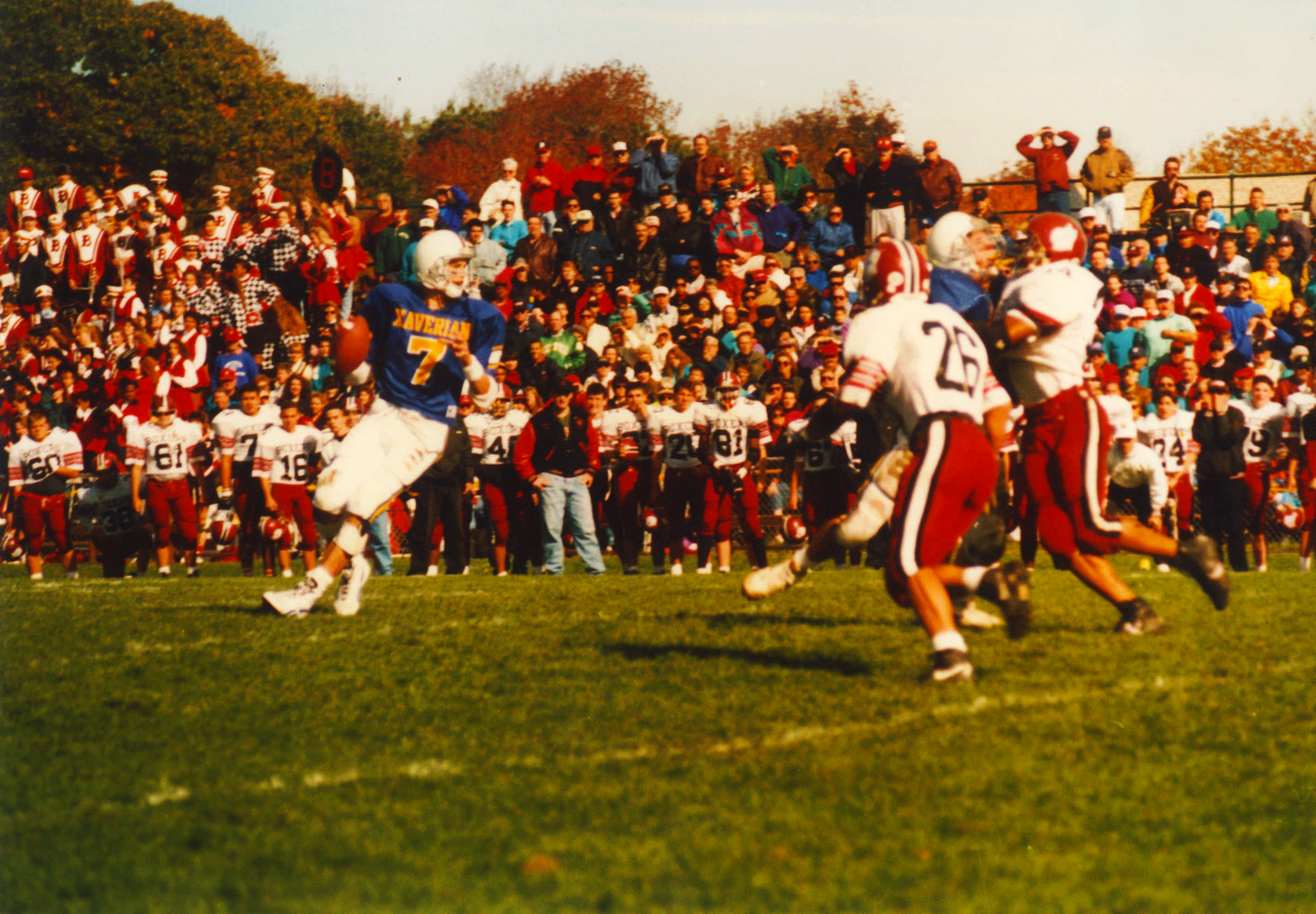 Matt Hasselbeck during Xaverian Brother High School vs. Brockton High School football game in 1993